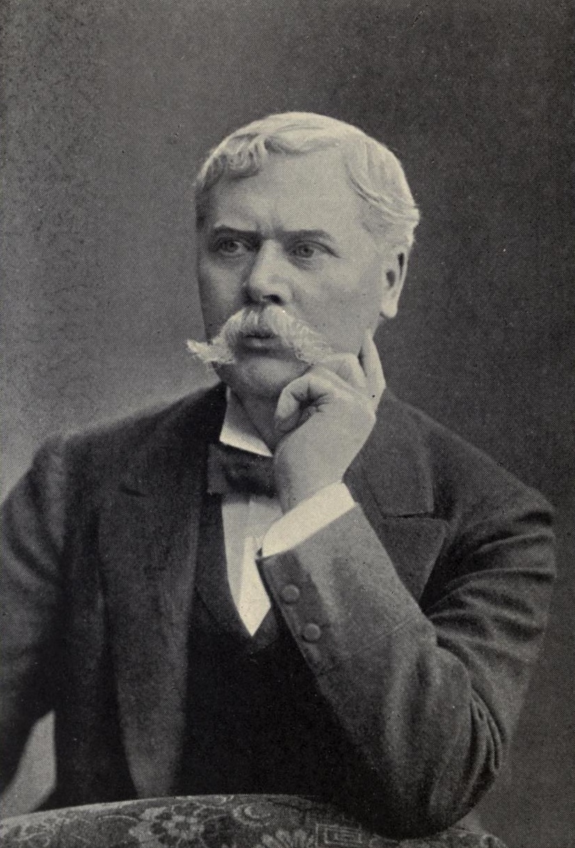 Portrait of Marcus Stone